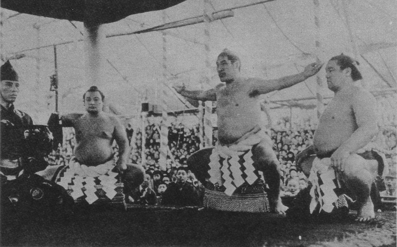 Retirement ceremony from Minanogawa Tōzō in Yasukuni Shrine, 1942)